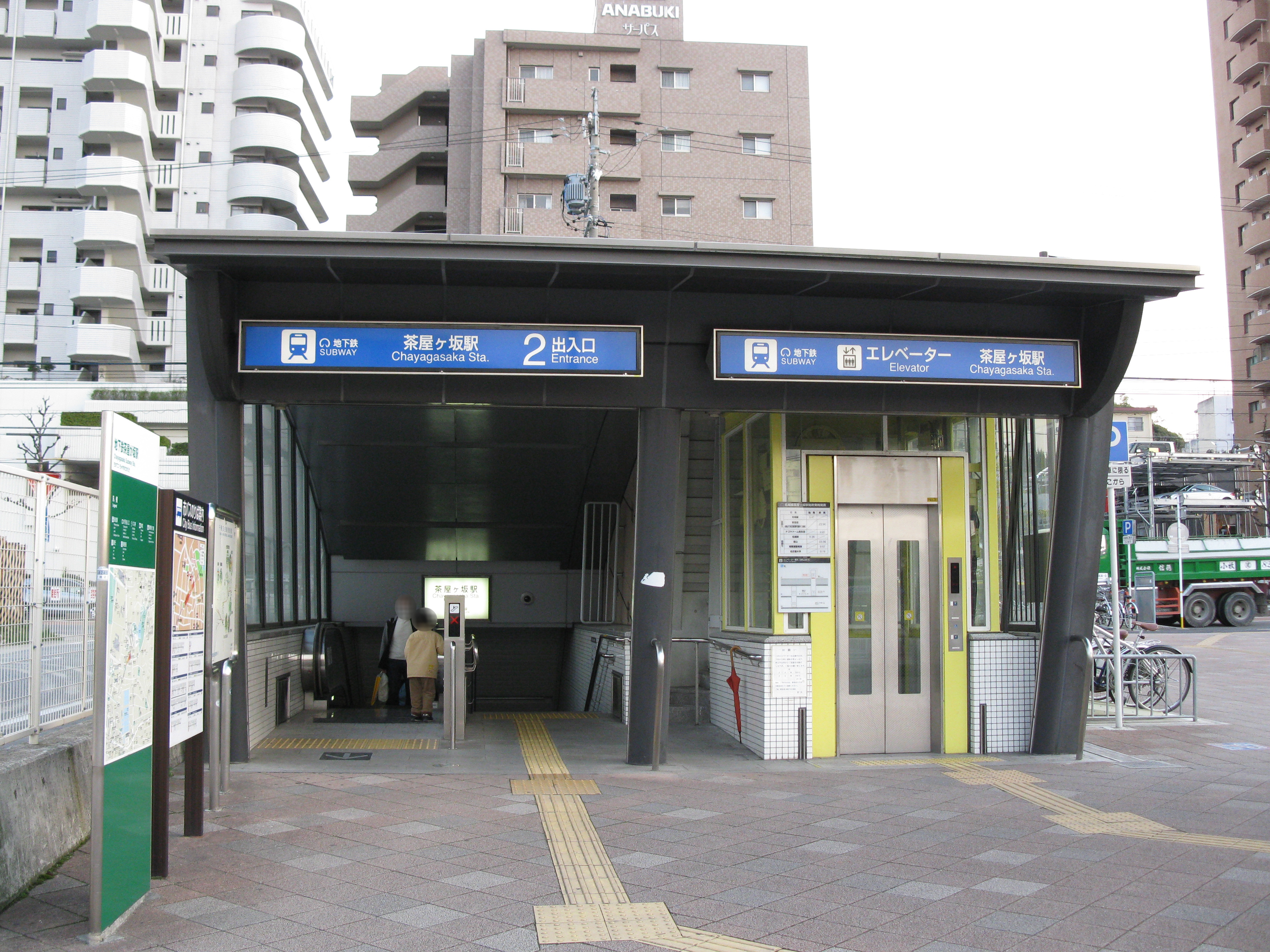 Chayagasaka Station no.2 entrance (Nagoya Municipal Subway Meijō Line)